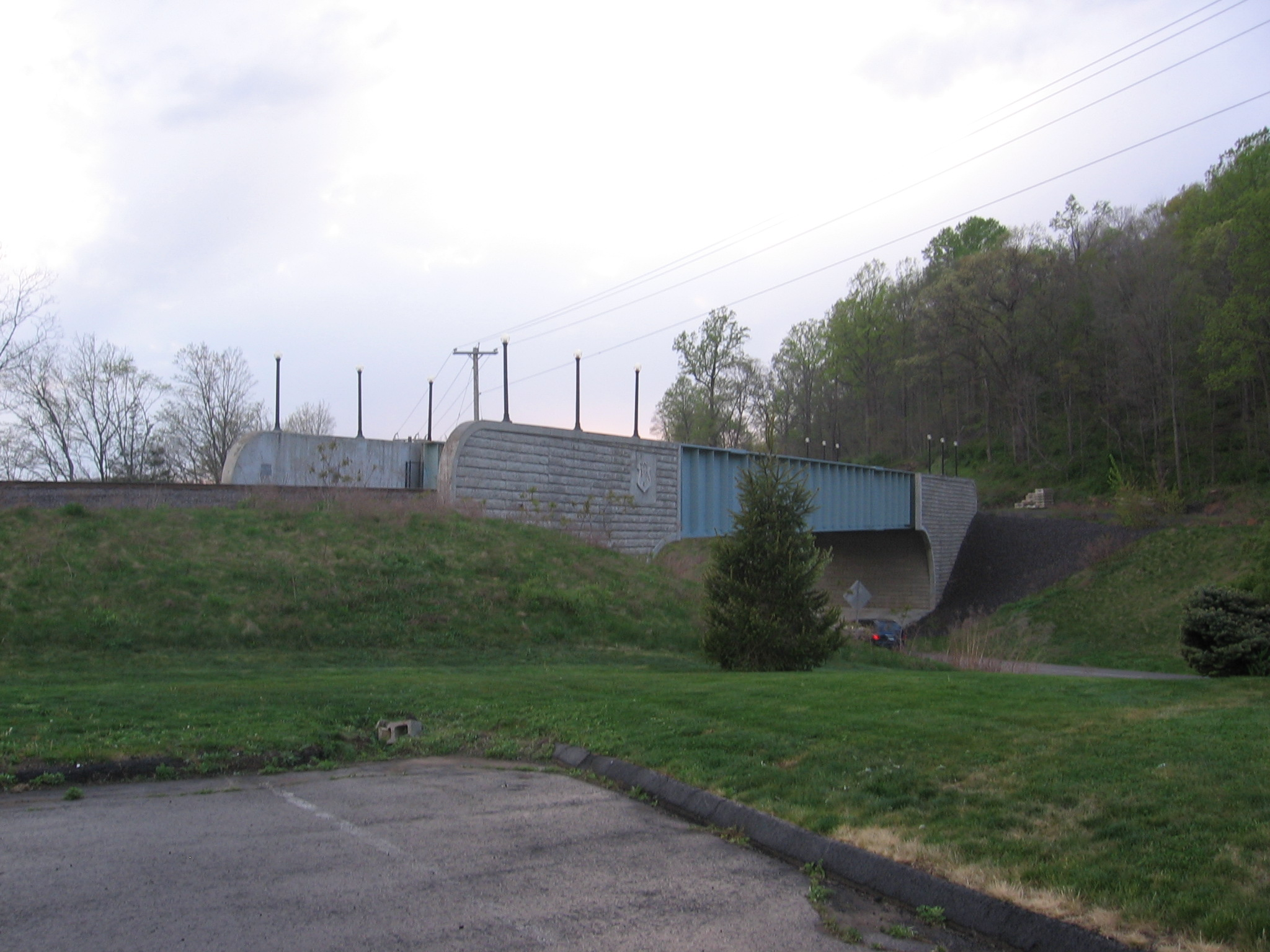 This impressive plate girder bridge with molded concrete abutments carries the (single track!) of the Branford Steam Railroad from its quarry in North Branford over Connecticut Route 80 (Foxon Road).